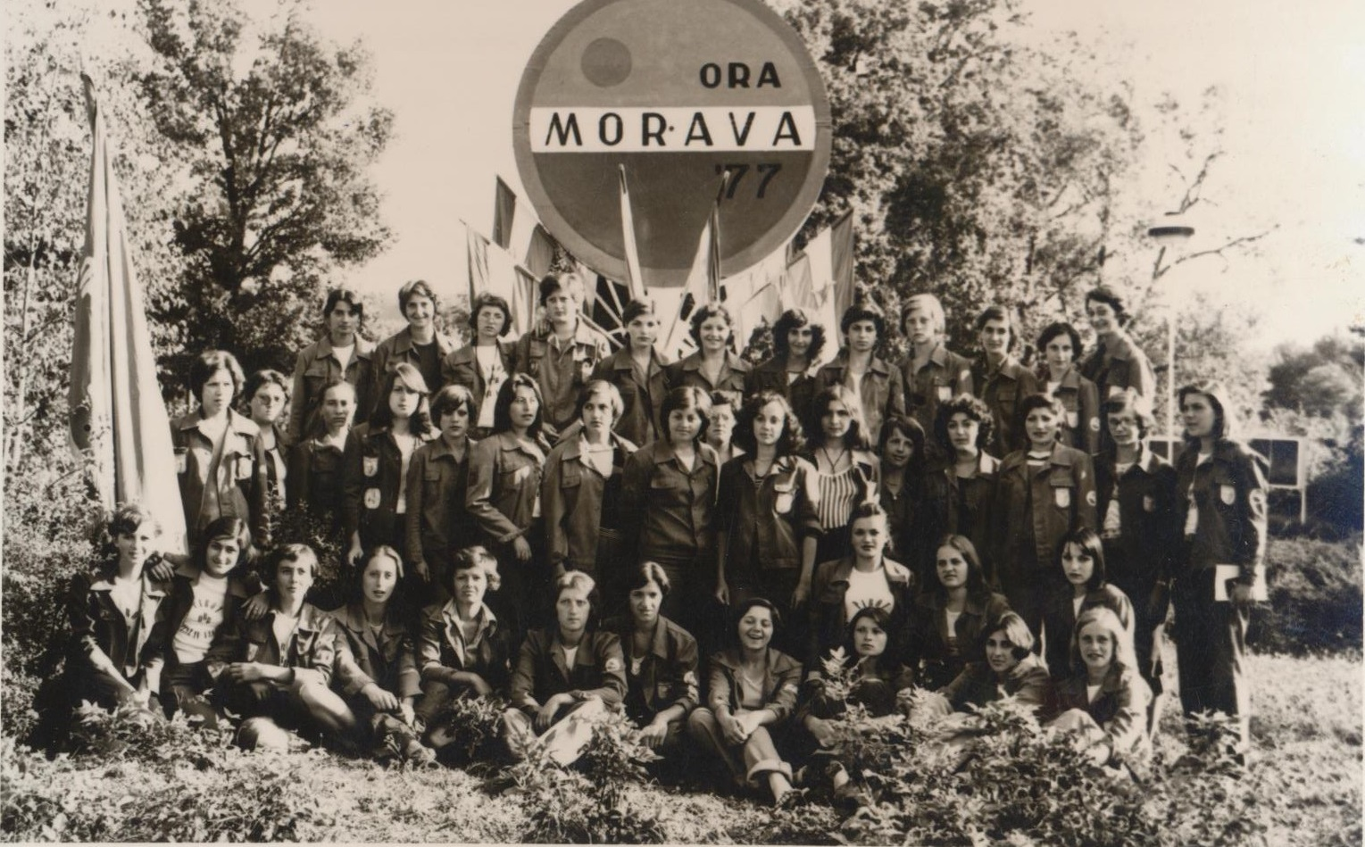 Pupils of teachers school in Pirot